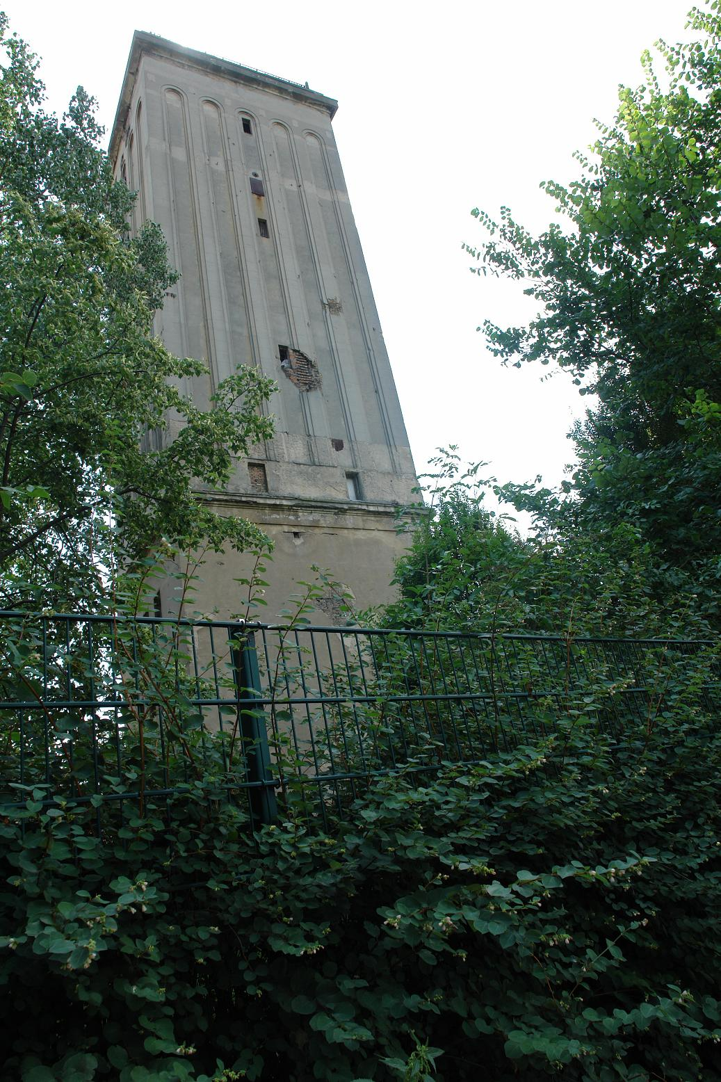 Water tower Berlin-Heinersdorf, Germany